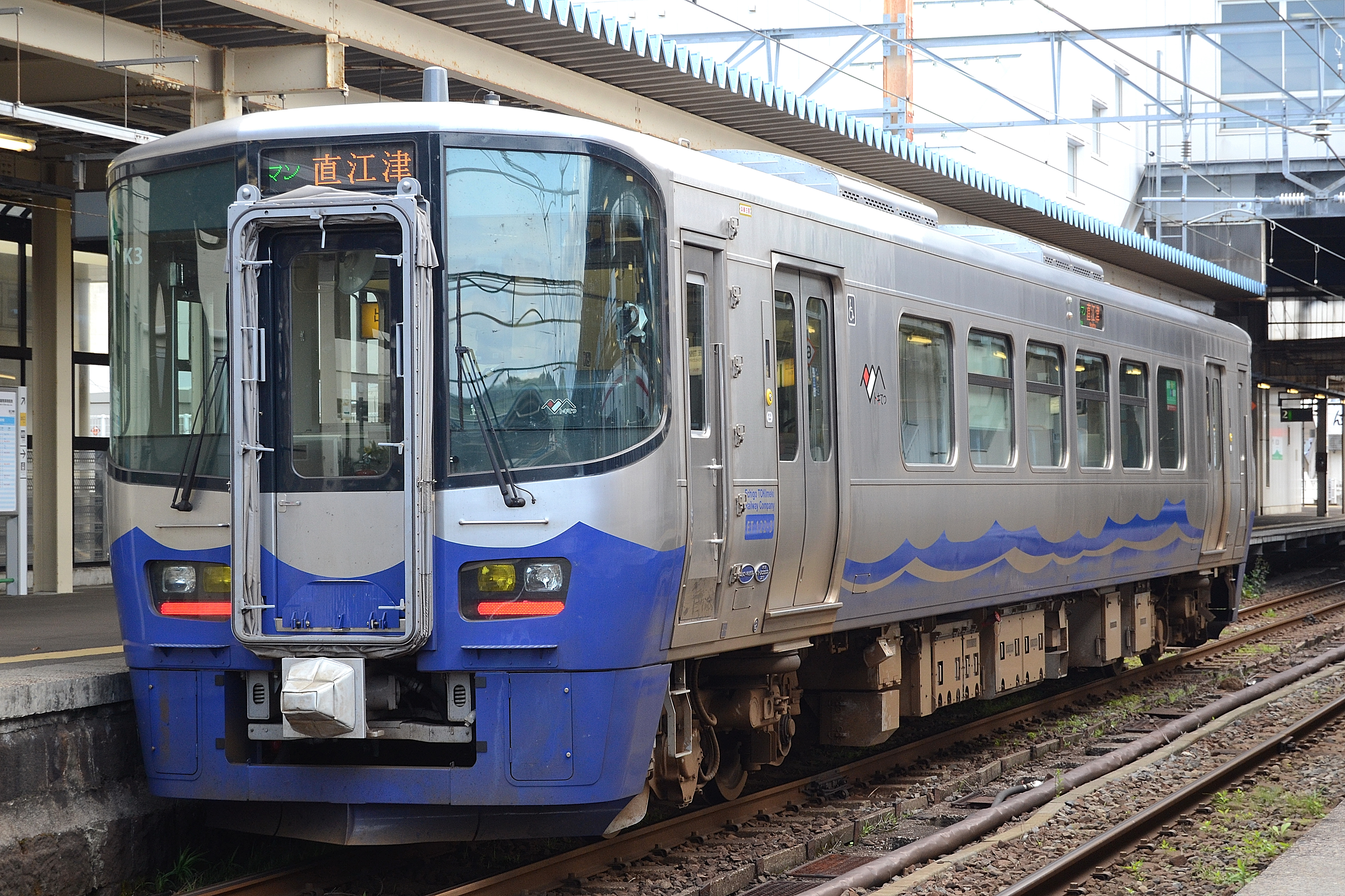 Echigo Tokimeki Railway ET122 diesel car ET122-3 (unit K3) at Naoetsu Station on the Nihonkai Hisui Line